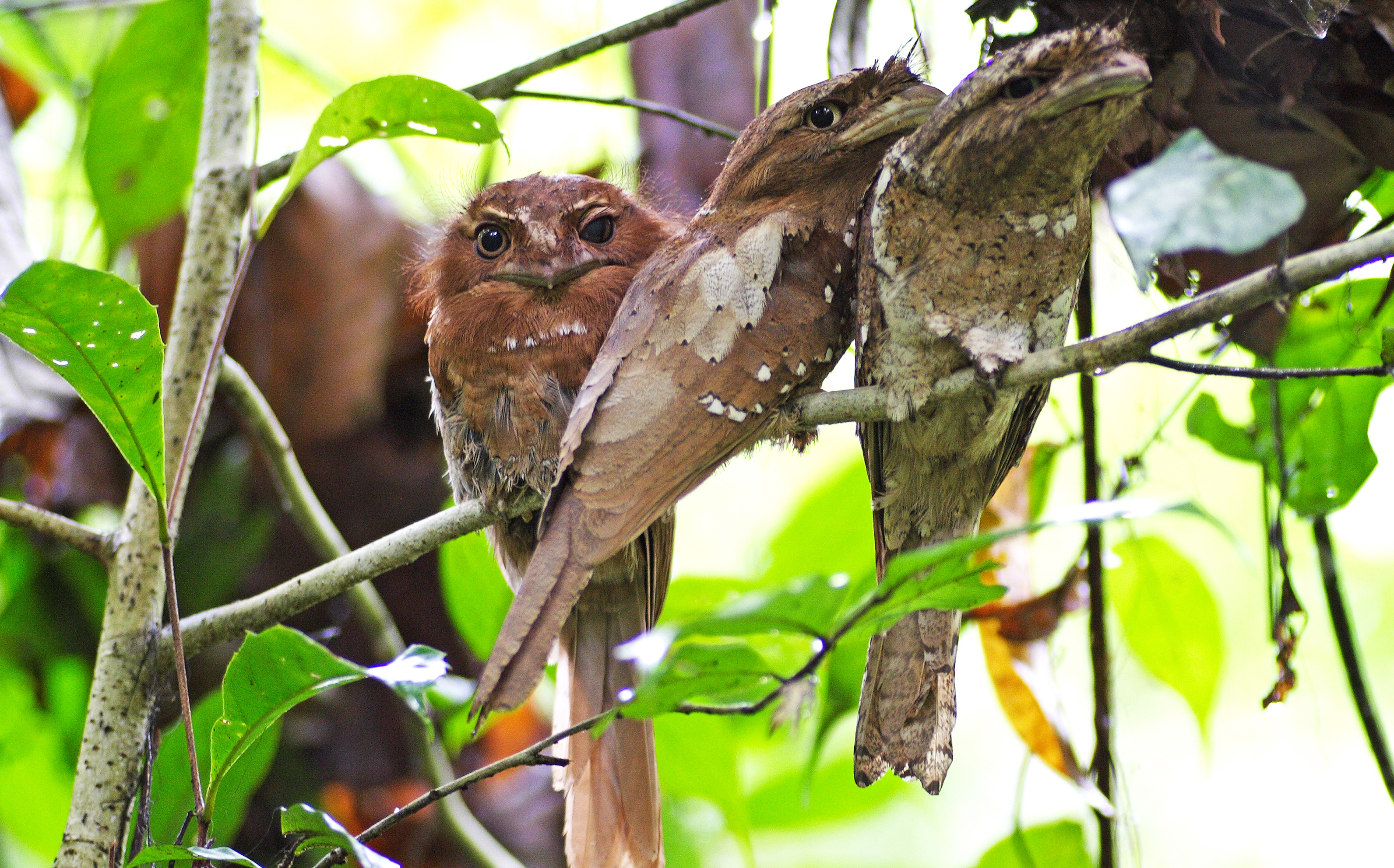 Ceylon Frogmouth or Sri Lanka Frogmouth (Batrachostomus moniliger). A young bird (middle) with adult female to left and male to right , from Thattekad Bird Sanctuary.